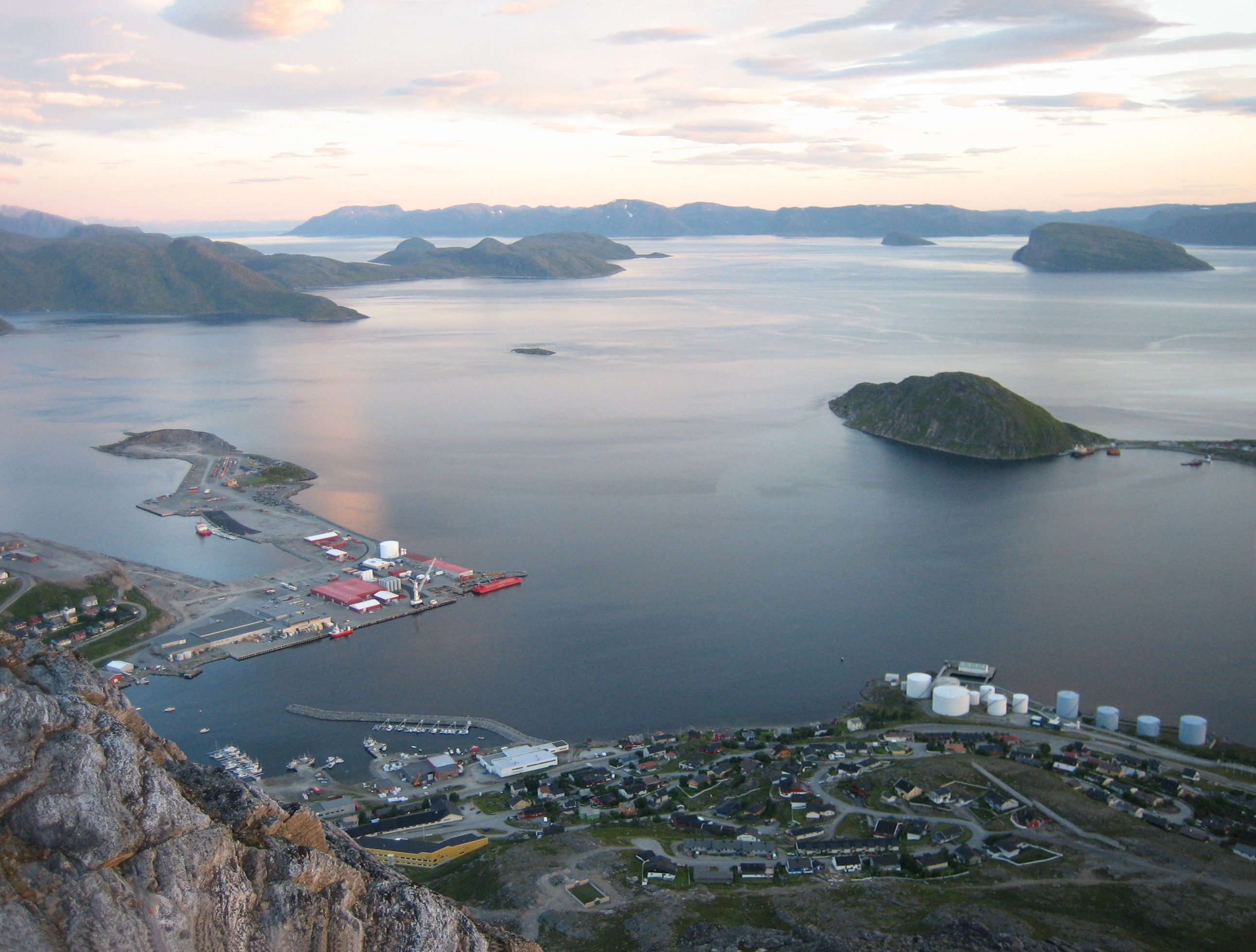 Photo of Rypefjord harbor area, taken by me 02.27 AM 30 July, 2007. Manxruler 01:24, 2 October 2007 (UTC)